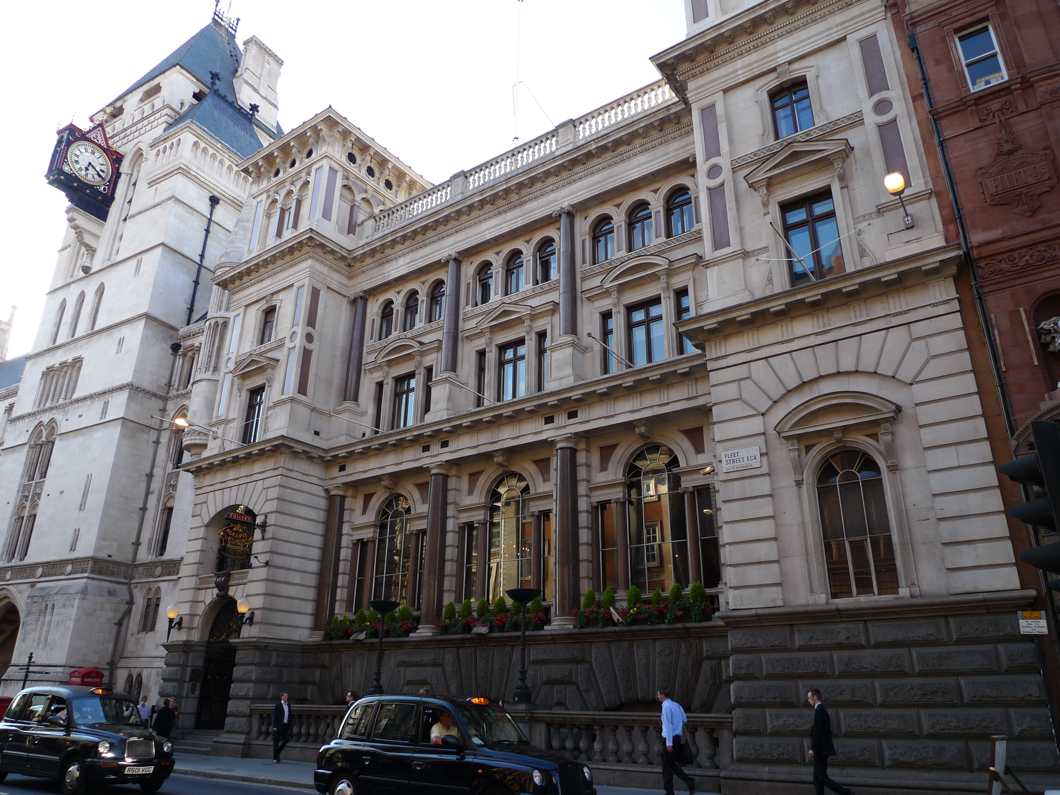 Obviously, this pub was once a branch of the Bank of England. Prior to that, the Olde Cock tavern was on the site, and it's still to be found on the other side of the road. Address: 194 Fleet Street. Former Name(s): The Cock Tavern (on the same site); The Cock and Bottle (on the same site). Owner: Fuller Smith Turner (website). Links: Randomness Guide to London Fancyapint Beer in the Evening Qype Dead Pubs (history)